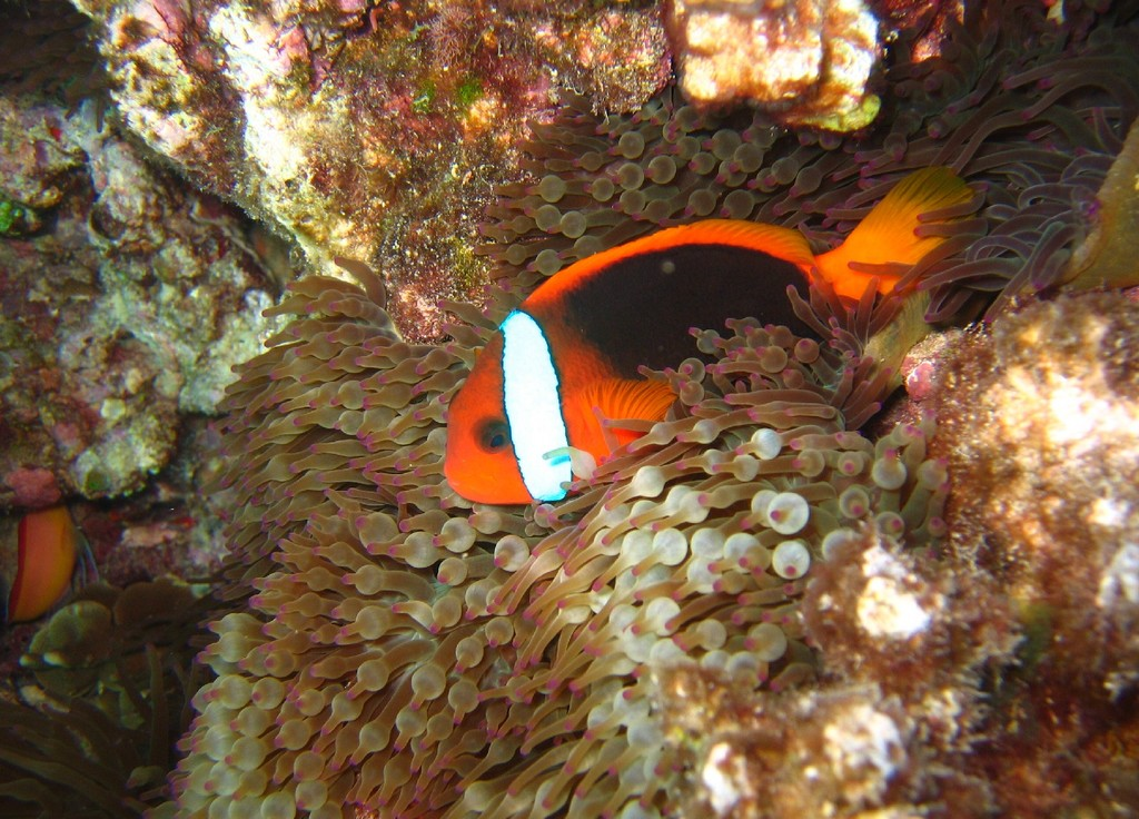 Red and Black Anemonefish (Amphiprion melanopus) in anemone (Entacmaea quadricolor). Steve's Bommie, Ribbon Reefs, Great Barrier Reef